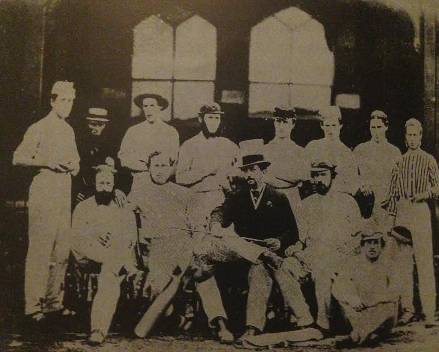 Team posing in front of present clubhouse.